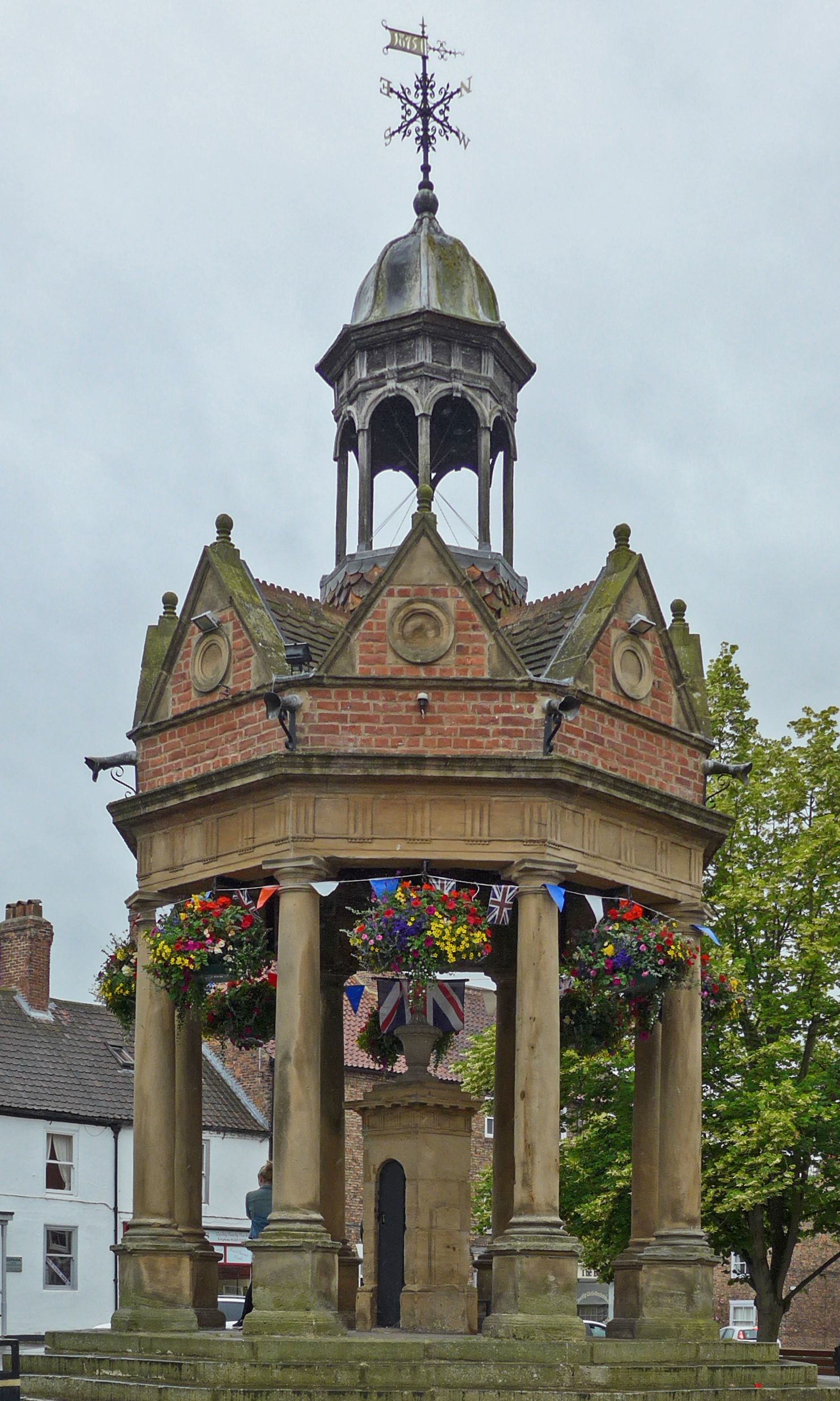 Market Well, Boroughbridge